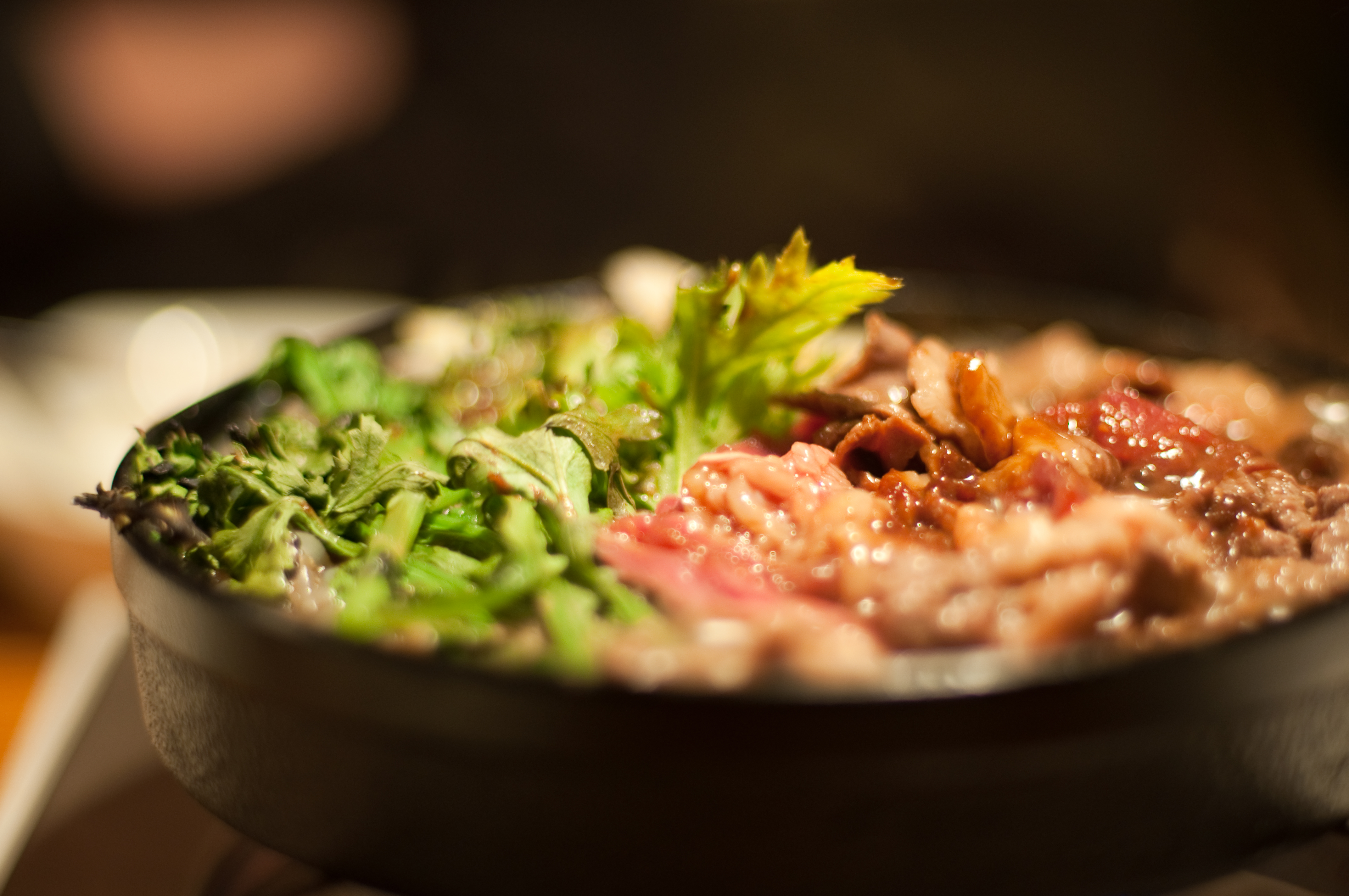 Sakura nabe (horse meat hot pot)